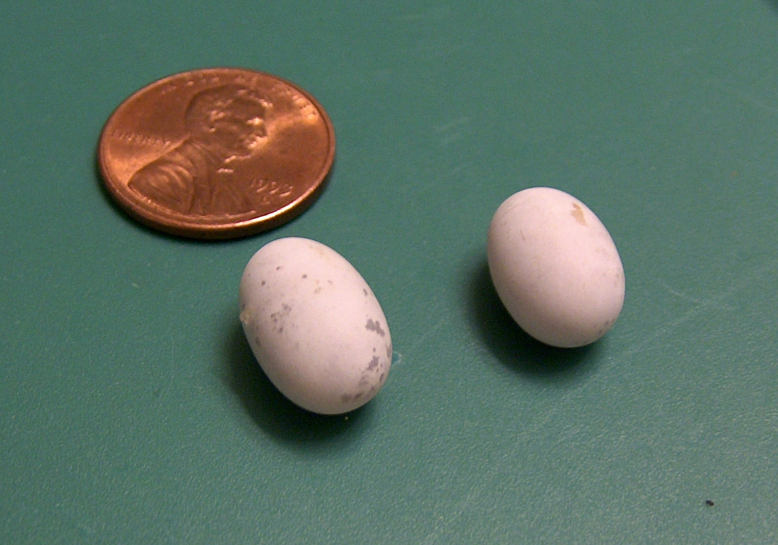 Ground Skink (Scincella lateralis) Eggs